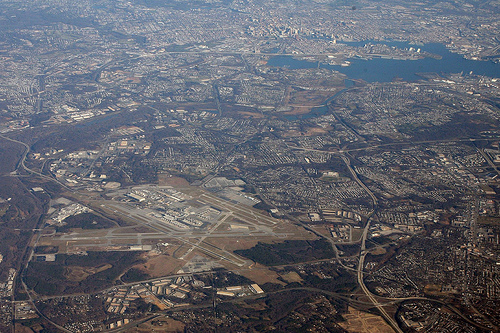 BWI Airport from above